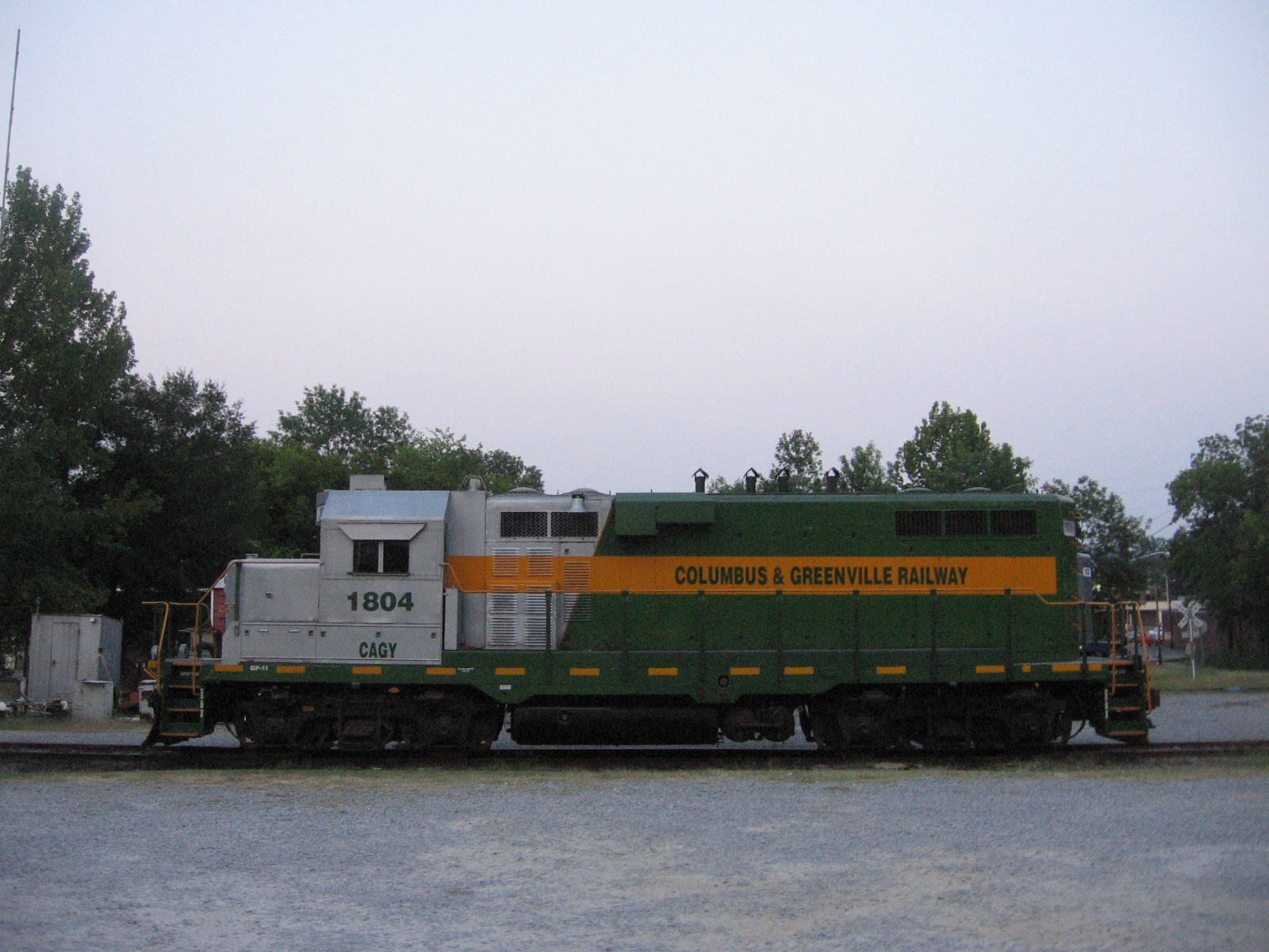 Columbus & Greenville Railway EMD GP11 1804 is roaming far from home as it rests at the LaFayette, Georgia yard of corporate sister railroad Chattooga & Chickamauga Railway.